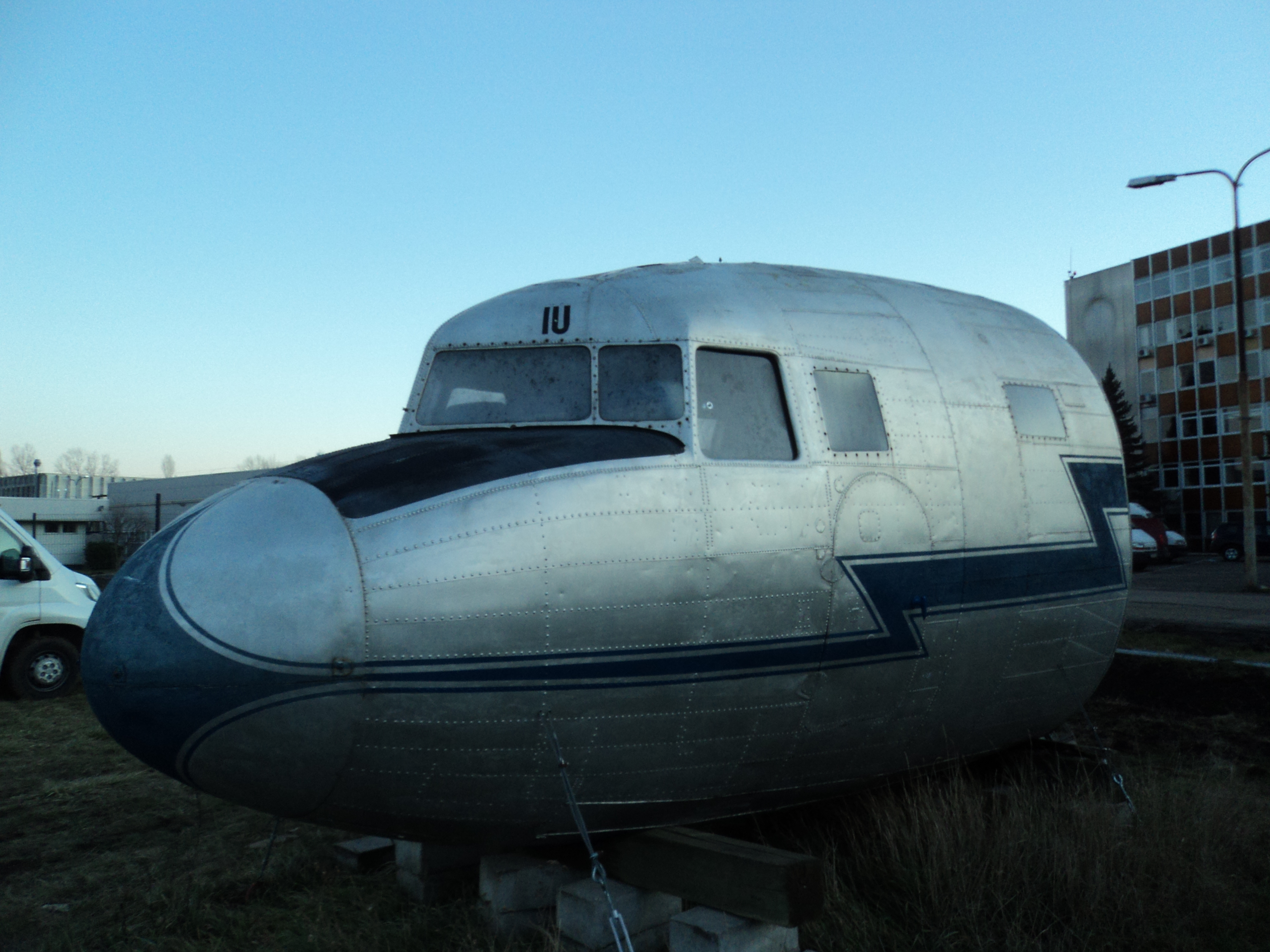 The remaining front of the HA-LIU aircraft in Budaörs